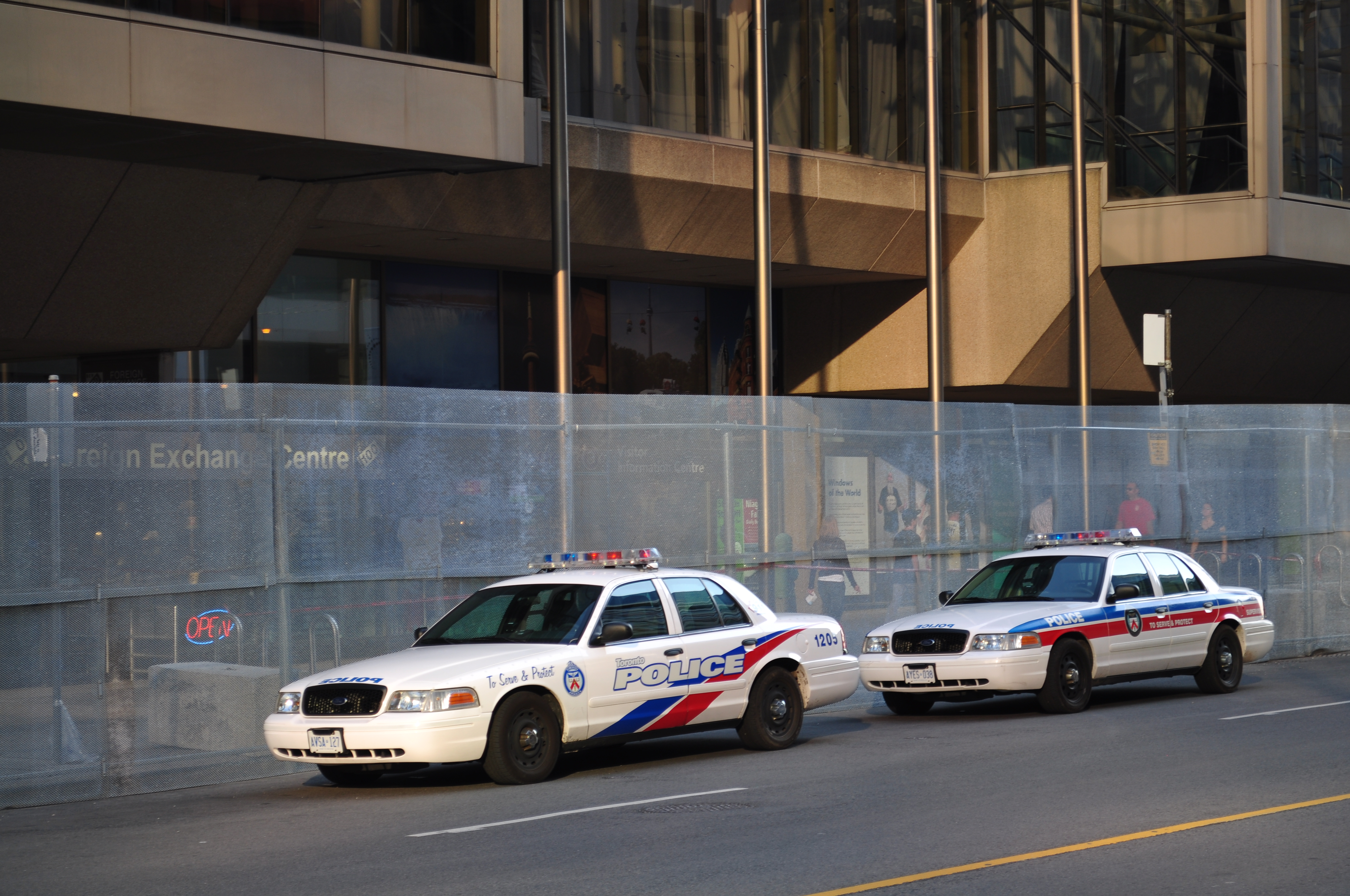 Toronto Police preparing for the G20 event.